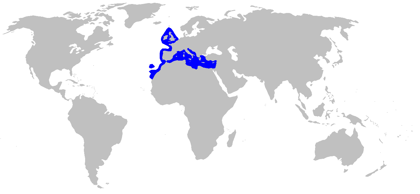 Distribution map for Mustelus mustelus